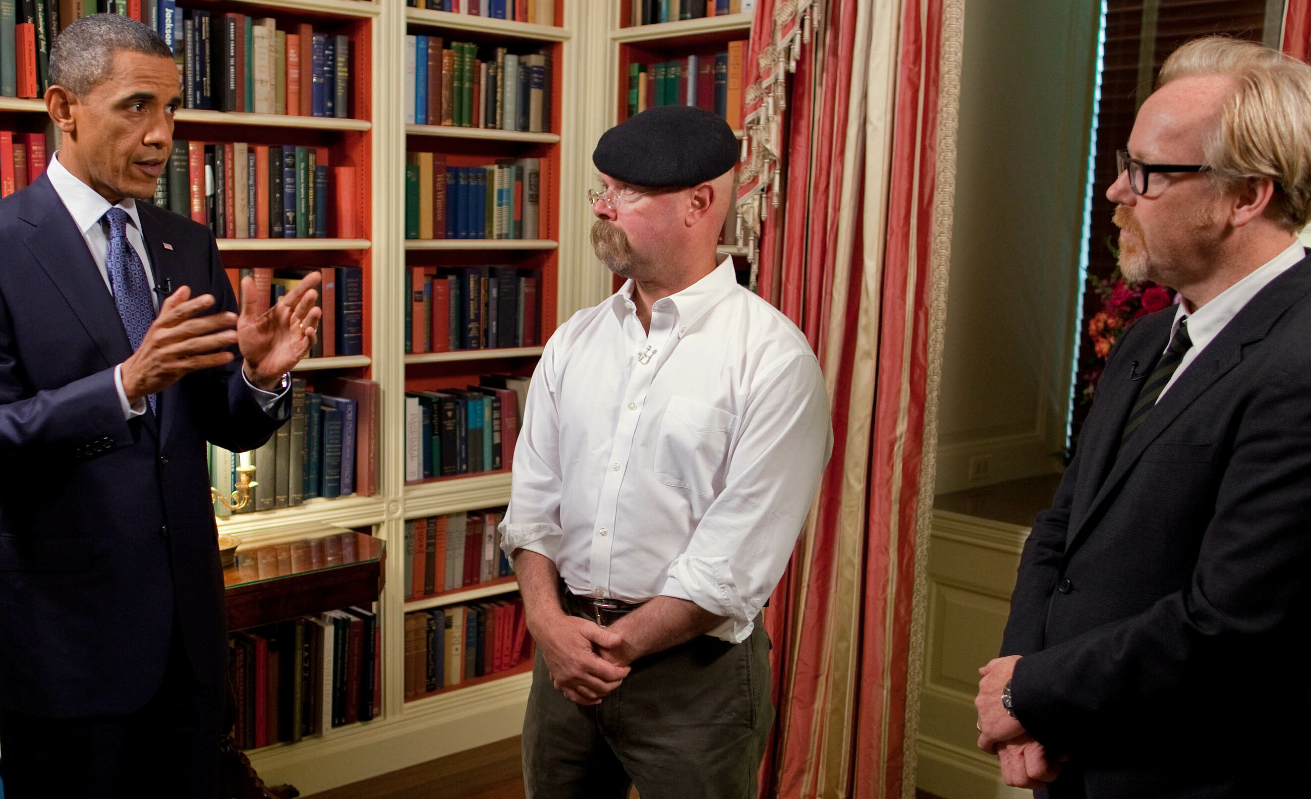 President Barack Obama records an episode of the Discovery Channel's television show "MythBusters" with co-hosts Jamie Hyneman and Adam Savage in the Library of the White House.